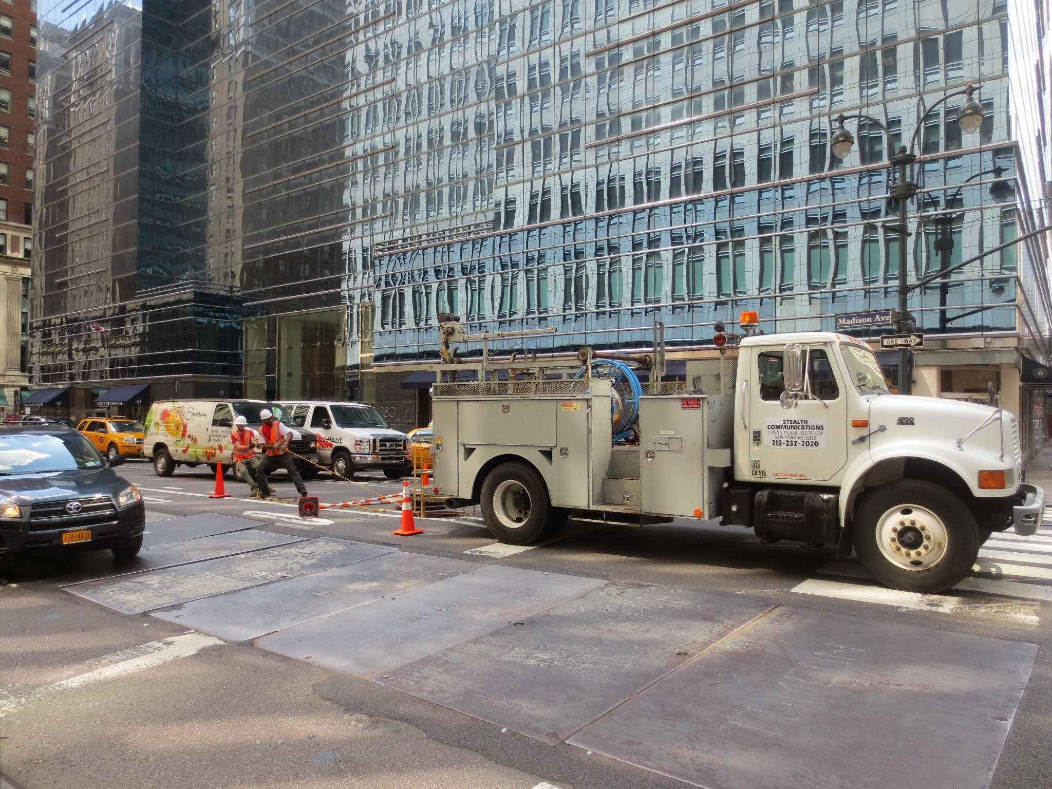 Stealth Communications fiber crew installing new fiber-optic cable underneath Madison Avenue, in New York City.